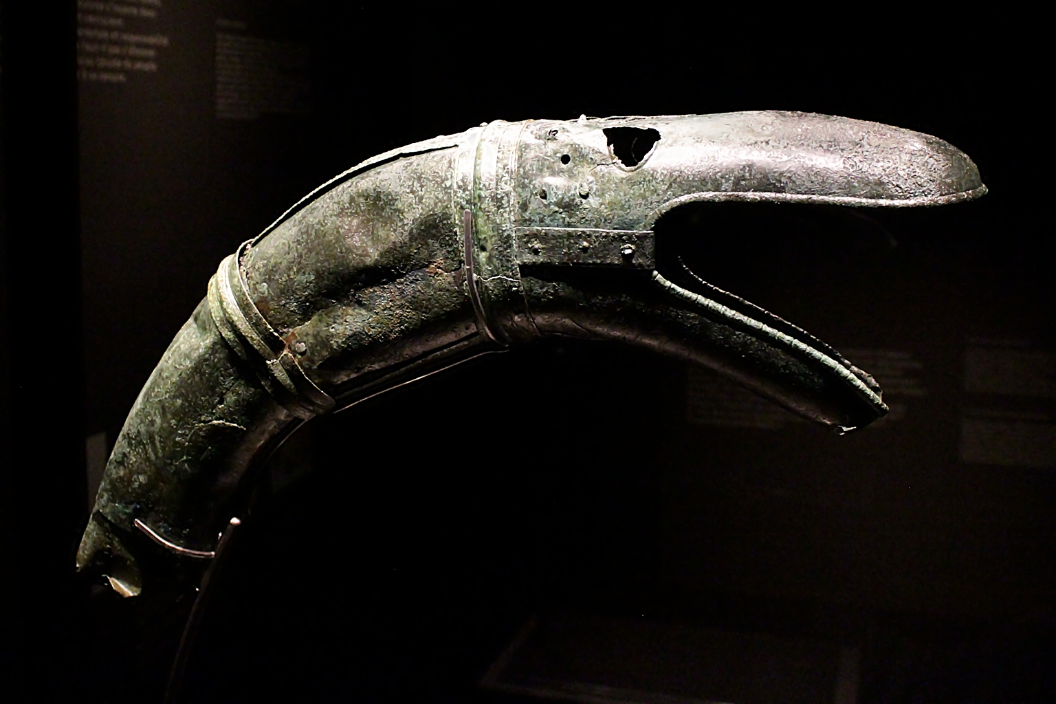 Carnyx found in the Gallic sanctuary of Tintignac (Corrèze). Cité des Sciences et de l'Industrie (Paris), "Les Gaulois, une expo renversante", from 19-10-2011 to 02-09-2012.